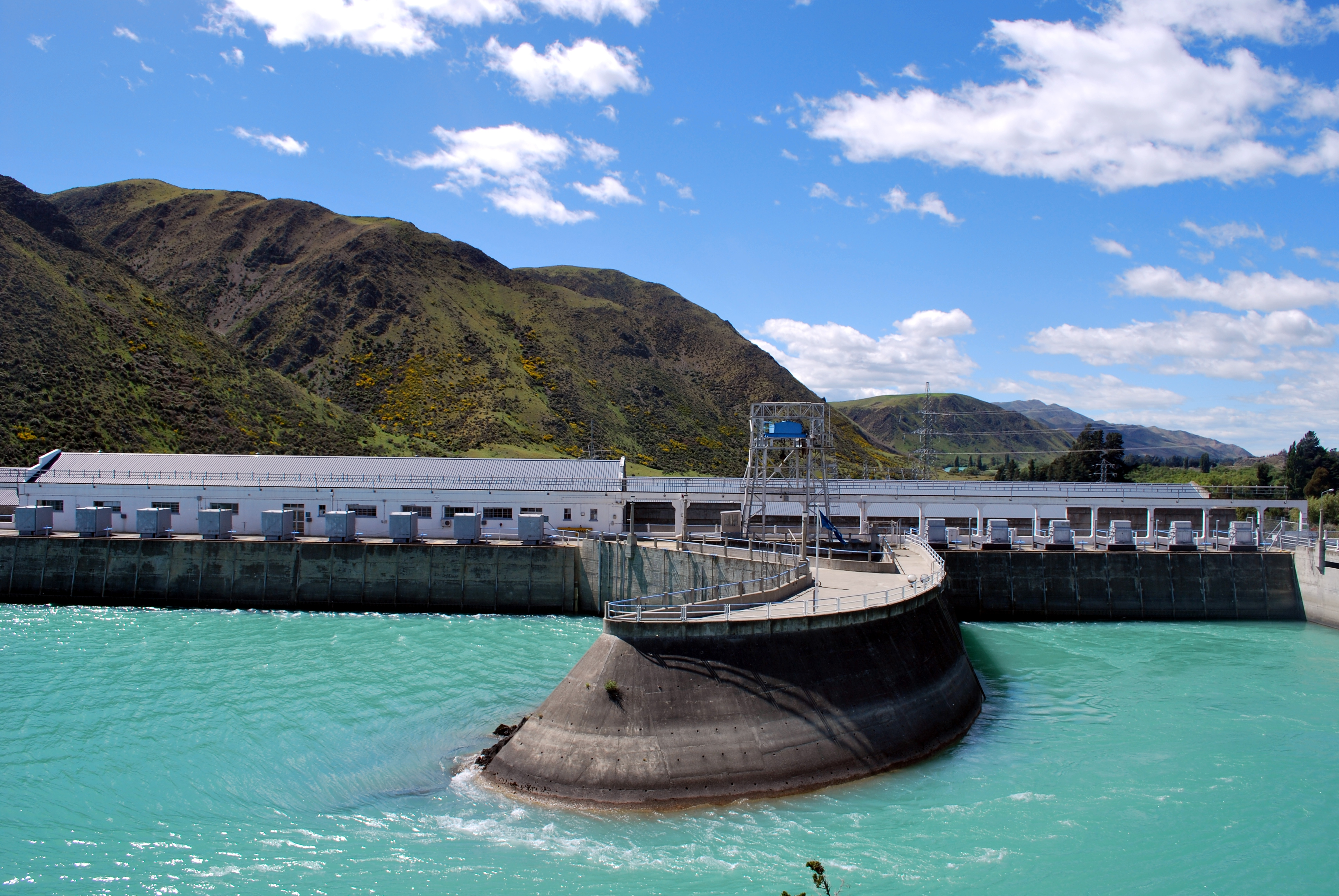 Waitaki Dam in New Zealand